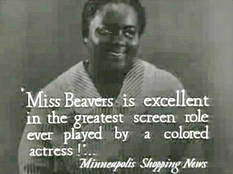 Cropped screenshot of Louise Beavers from the film Imitation of Life (1934)